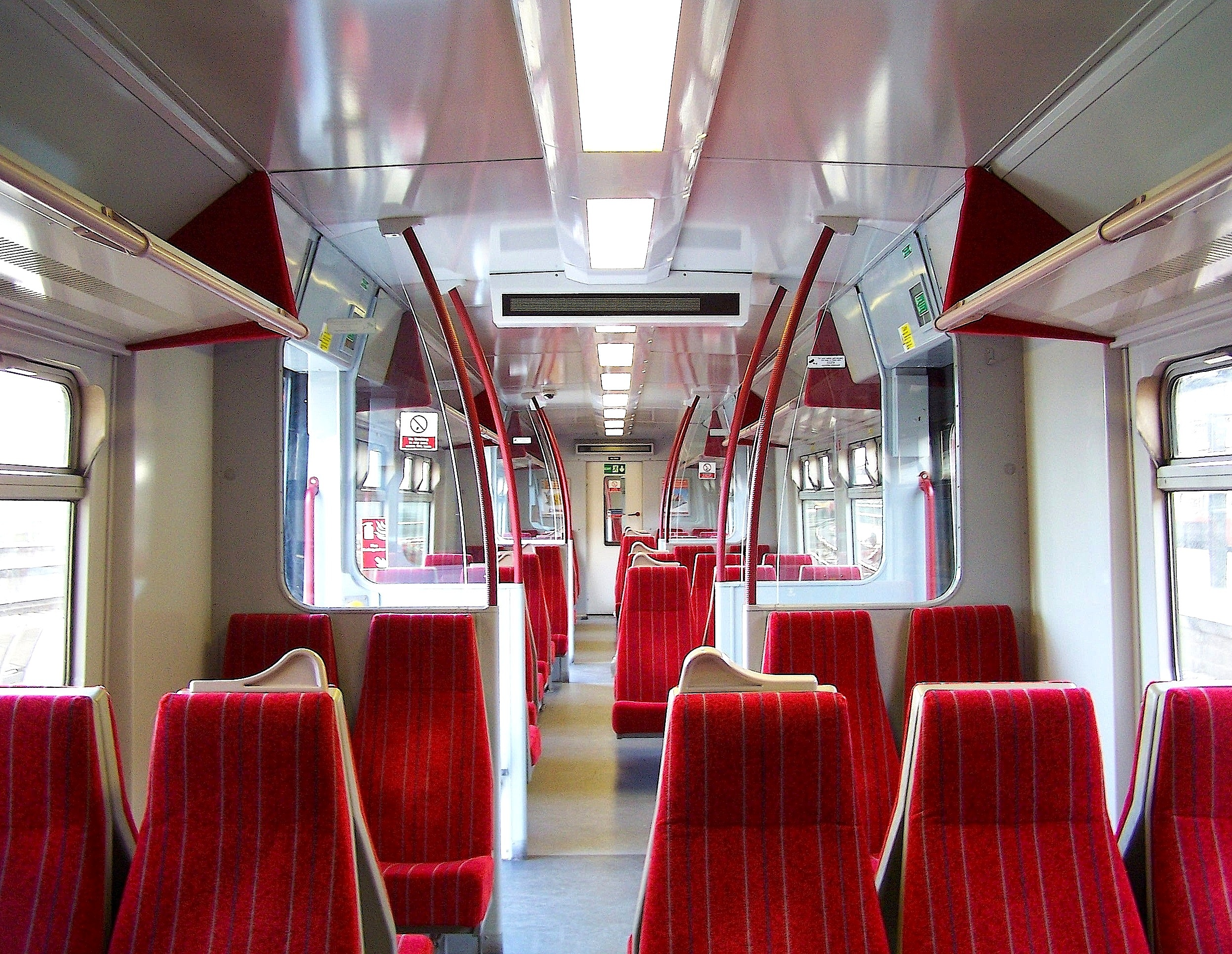 Recently refurbished Northern Rail/WYPTE Metro Class 321/9 TSO interior